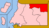 Map of Equatorial Guinea showing Kié-Ntem province.